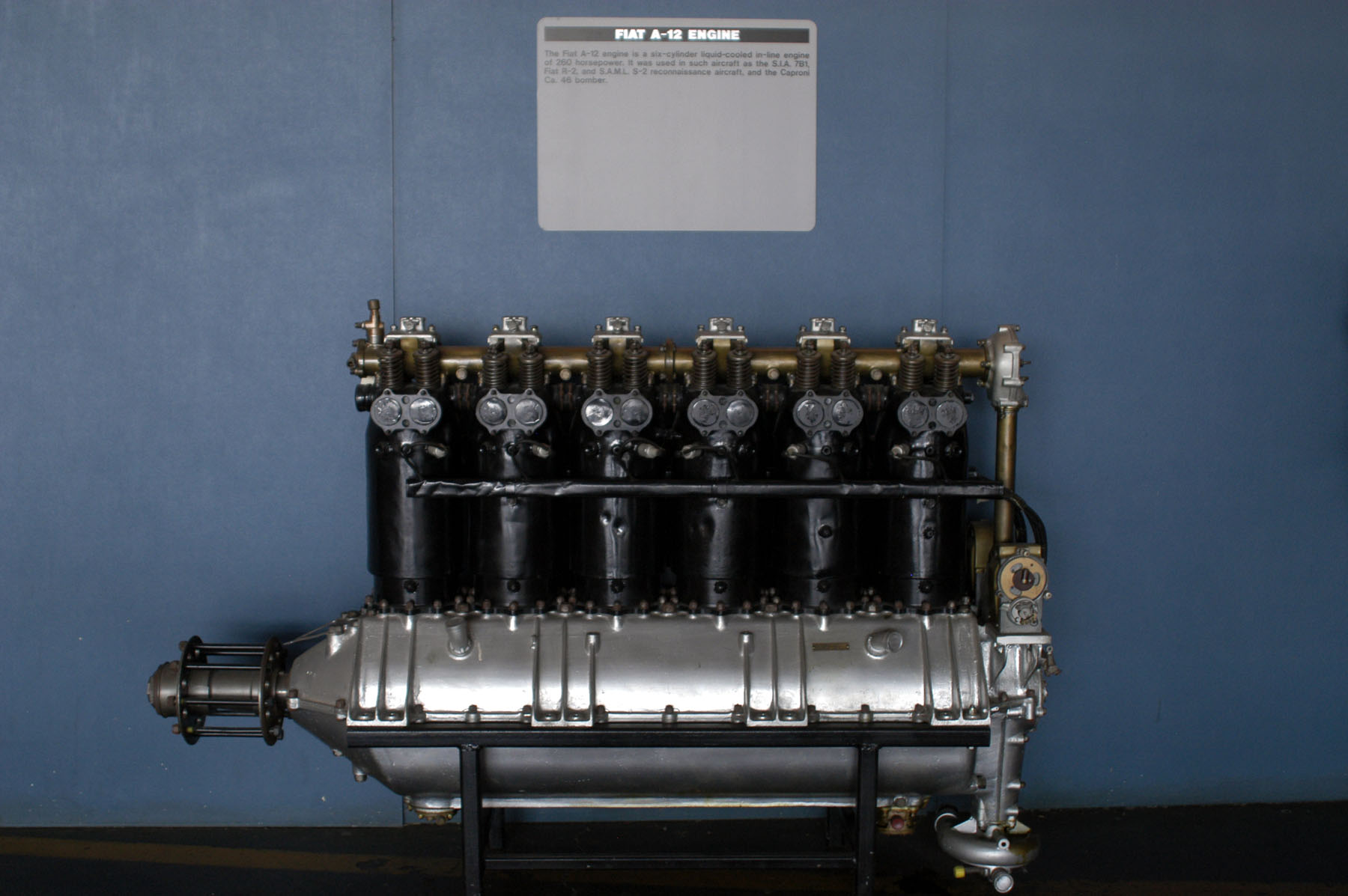 FIAT A.12 at Research & Development Gallery, National Museum of the United States Air Force